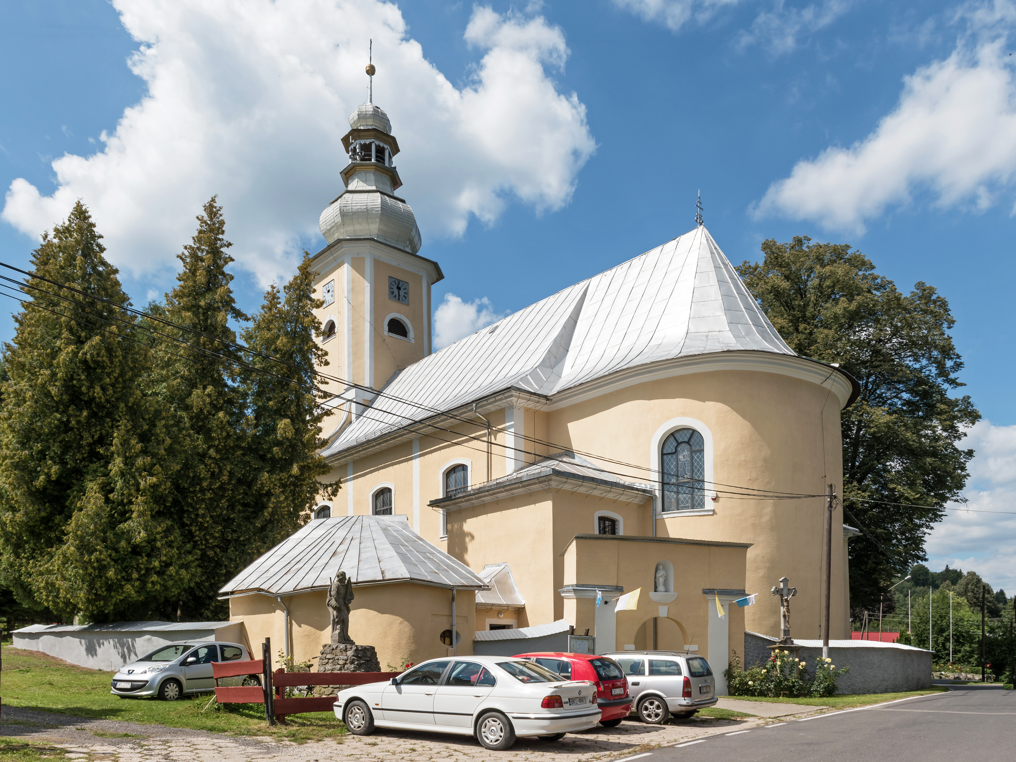 Church of the Assumption in Różanka Wikidata has entry Q30049111 with data related to this item.